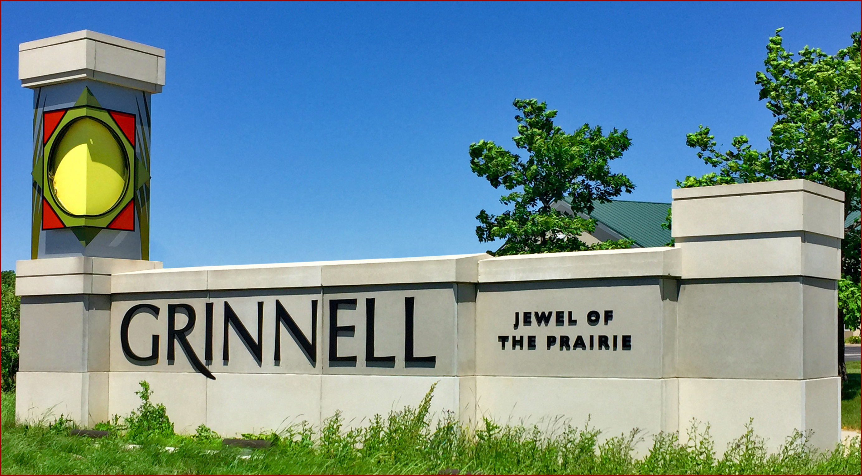 "Jewel of the Prairie" sign, in Grinnell, Iowa, United States.